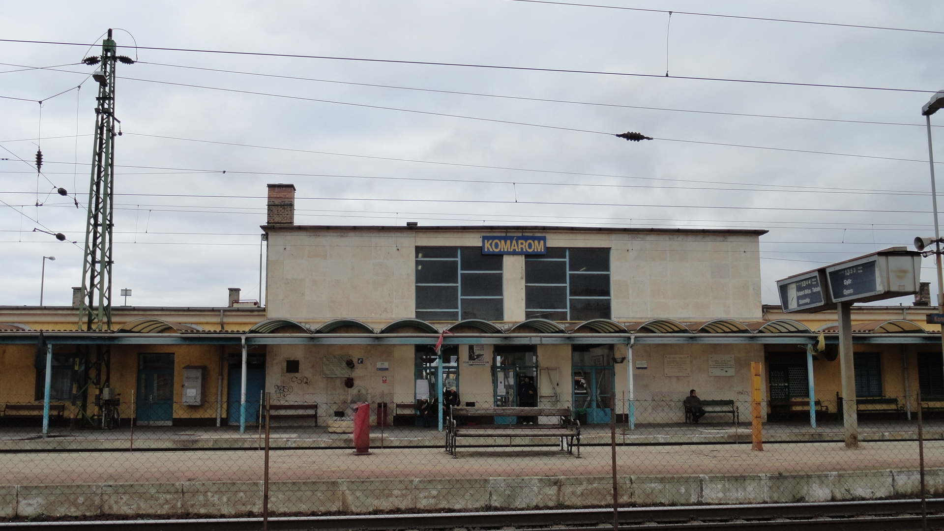 Komárom (Hungary) - Railway station